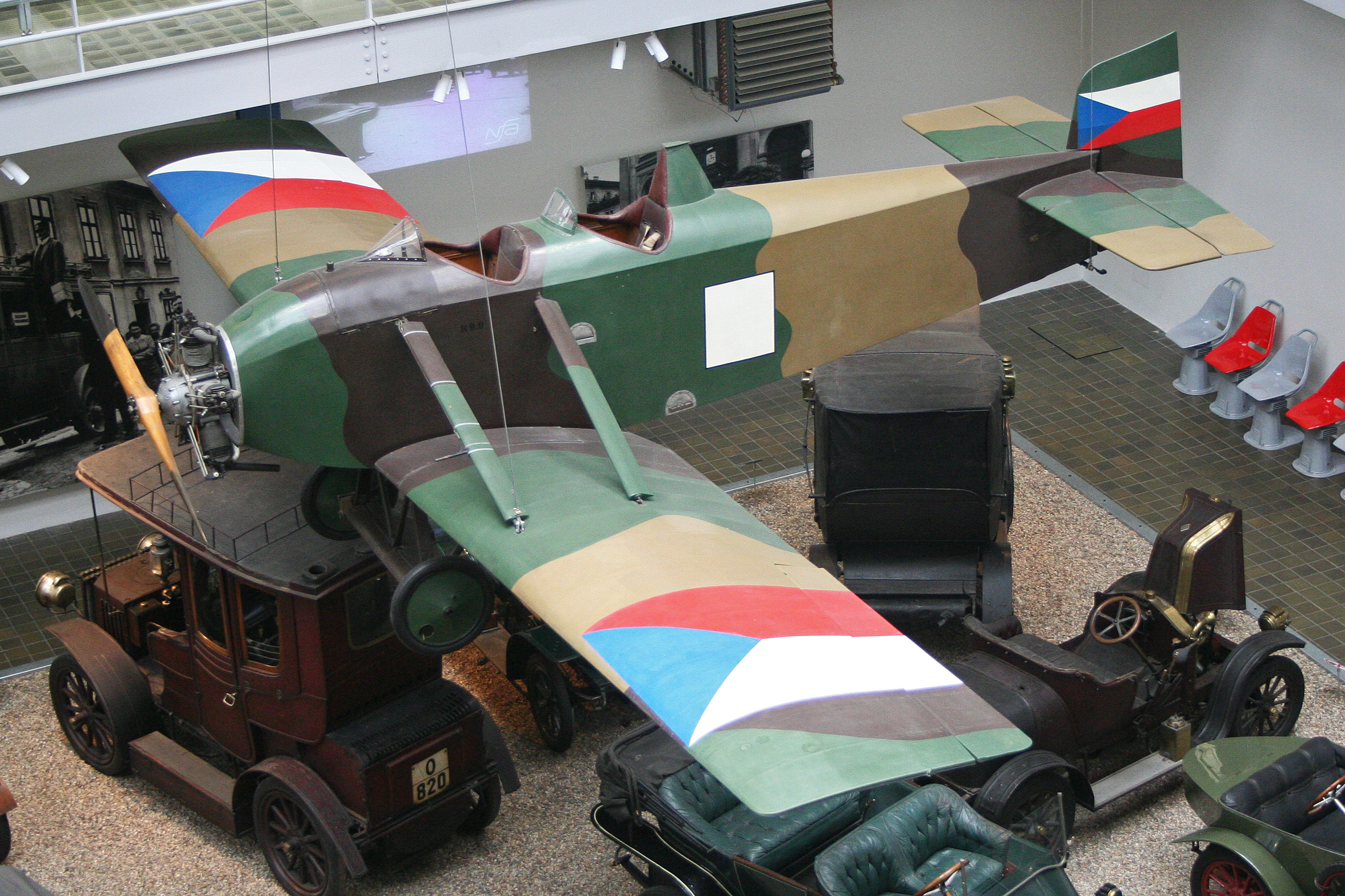 A trainer and liaison aircraft built in 1924. Fantastic colour scheme!! msn B.9-9. National Technical Museum. Prague, Czech Republic. 07-10-2012